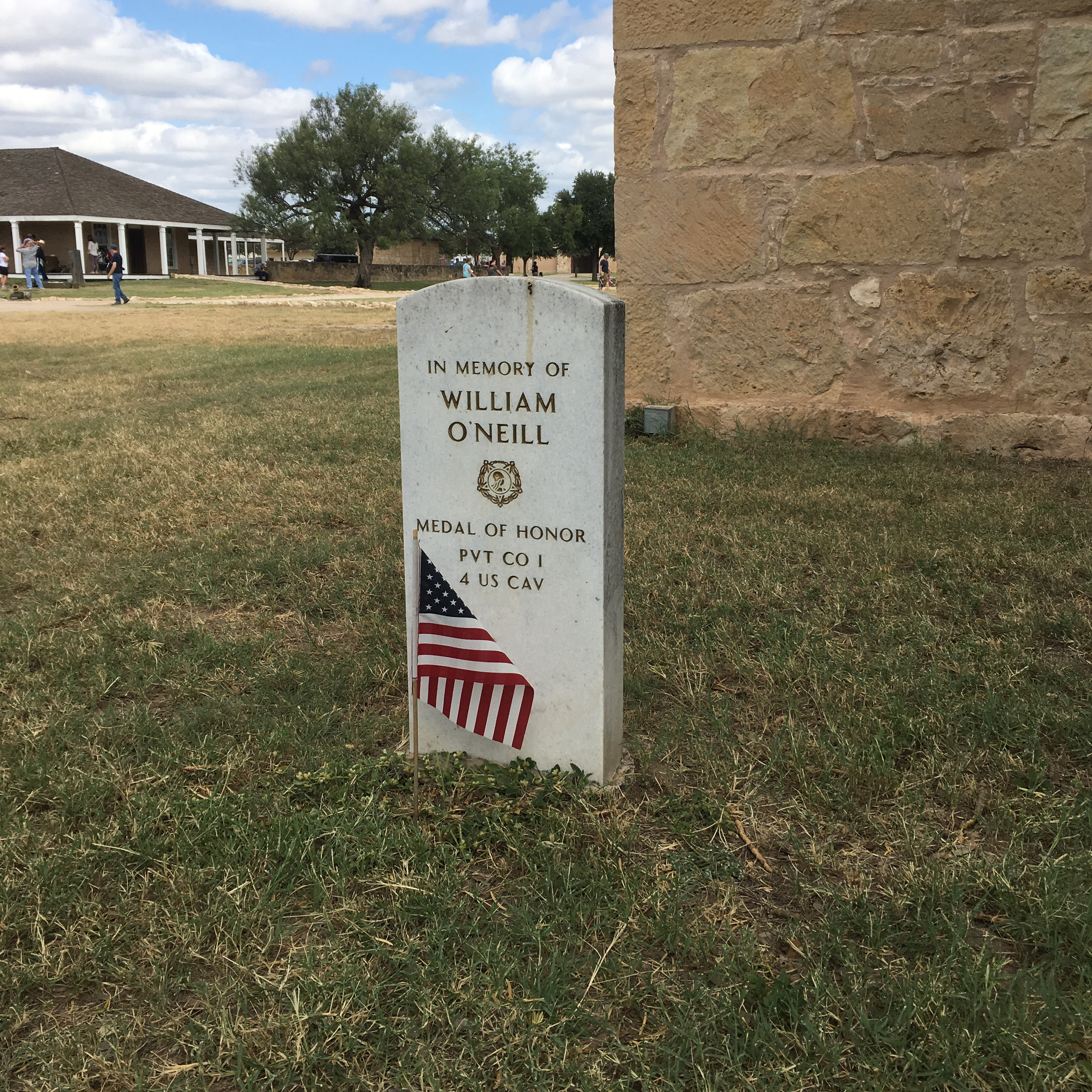 This is a memorial headstone located at Fort Concho, San Angelo, Texas dedicated to William O'Neill, killed during the American Indian Wars. He posthumously received the Medal of Honor on 19 November 1872.